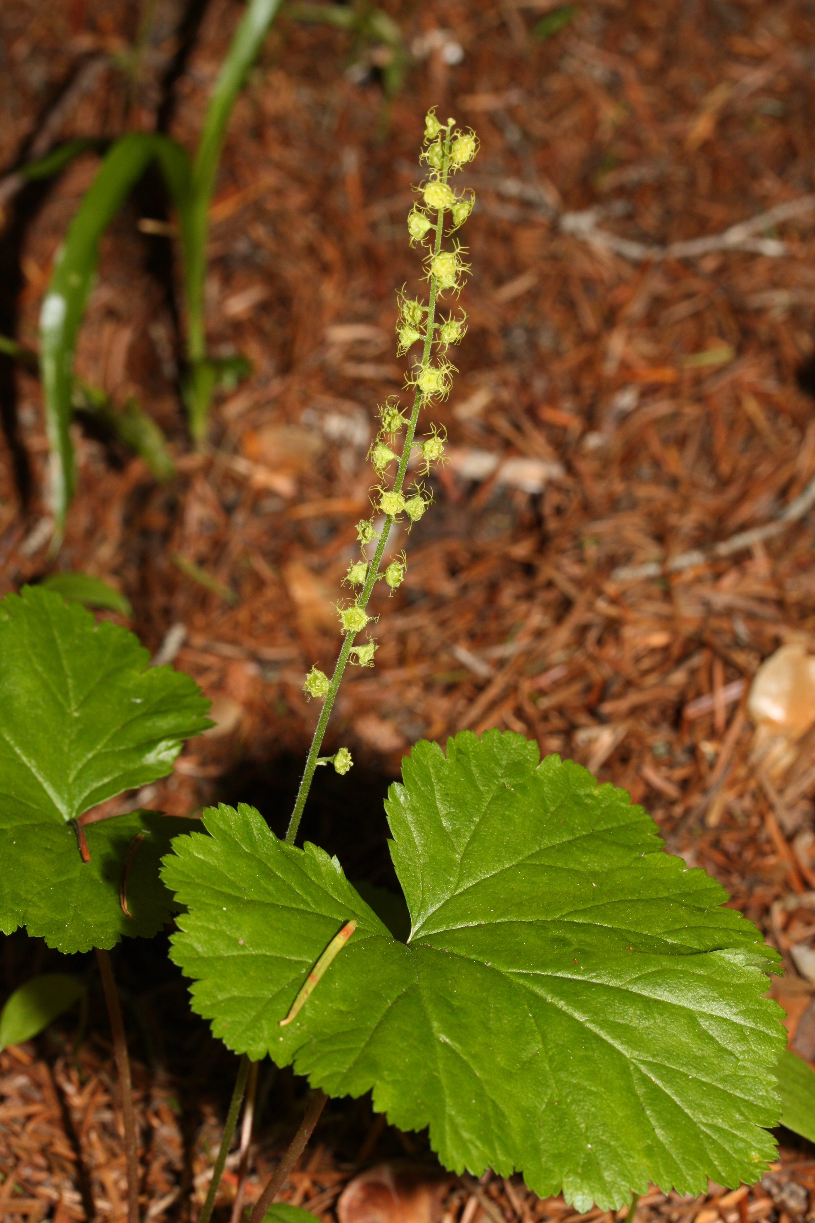 Brewer's Miterwort, Feathery Bishop's-cap.